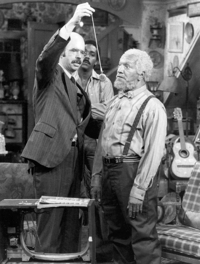 Photo of Redd Foxx, Graham Jarvis and Demond Wilson from the television program Sanford and Son. Lamont watches as Fred tries hypnotism for his television addiction. (Note that, in this television broadcast, and deliberately intended to prevent viewer replication, the watch is below the subject's eye level -- rather than the correct manner of "upwards and inwards squint", where the watch would be held above eye level.)